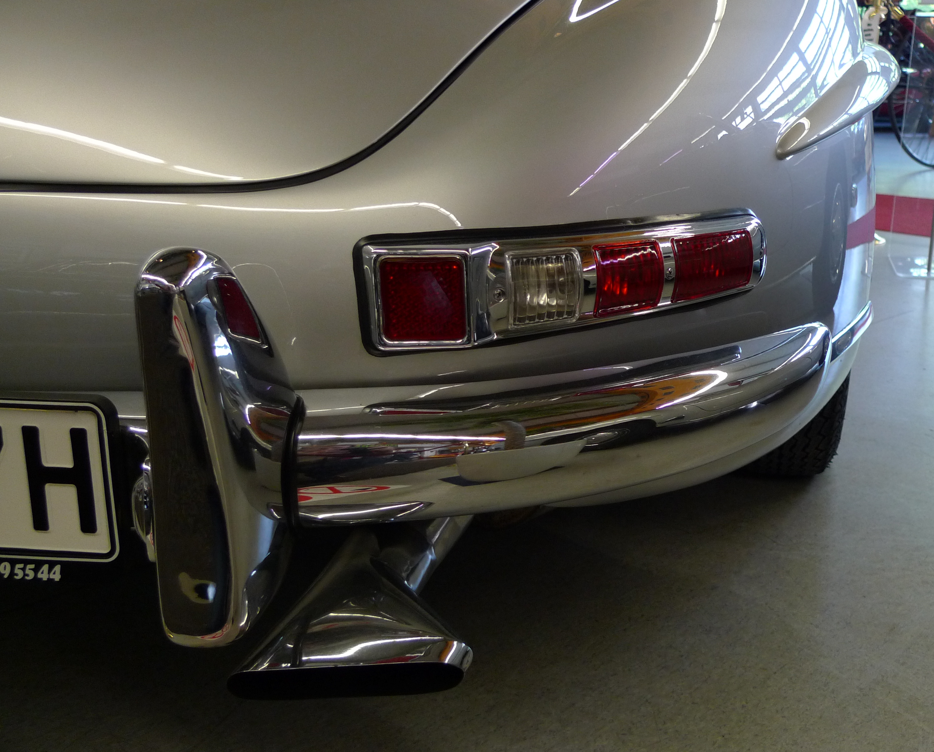 rear lights of Mercedes-Benz 300SL (W198)